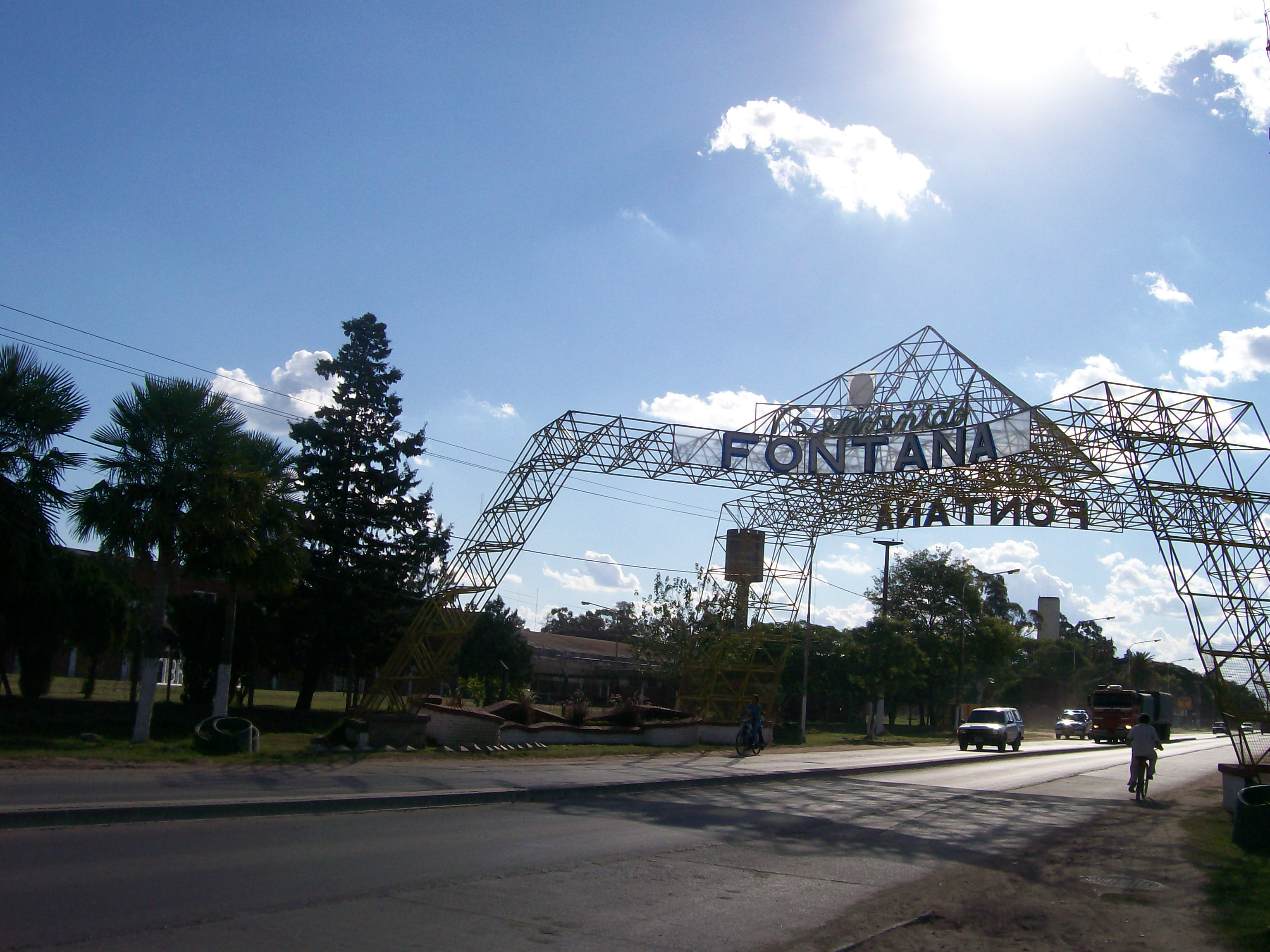 Main access (Alvear Avenue) to Fontana City in Chaco Province, Argentina.